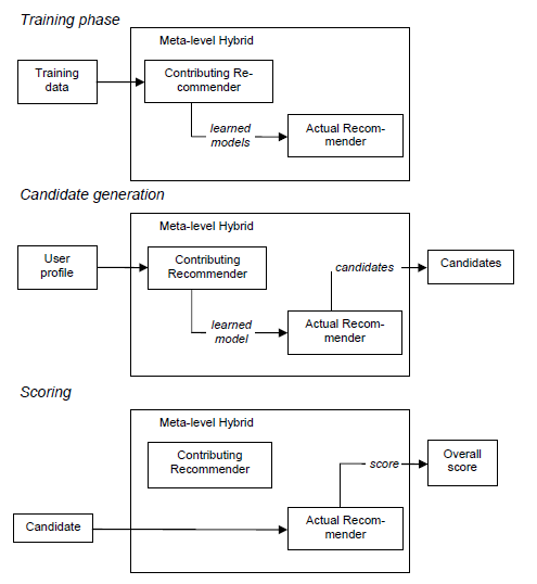 Sistema de Recomanació Híbrid, Meta Nivells